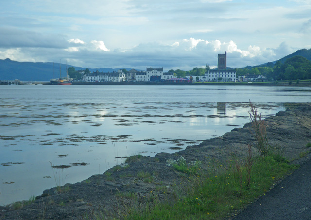 Shoreline and tideland along the A83 Road, near to Ardrishaig, Argyll And Bute, Great Britain. This is an evening view looking south along the shoreline with the town of Ardrishaig in the distance.